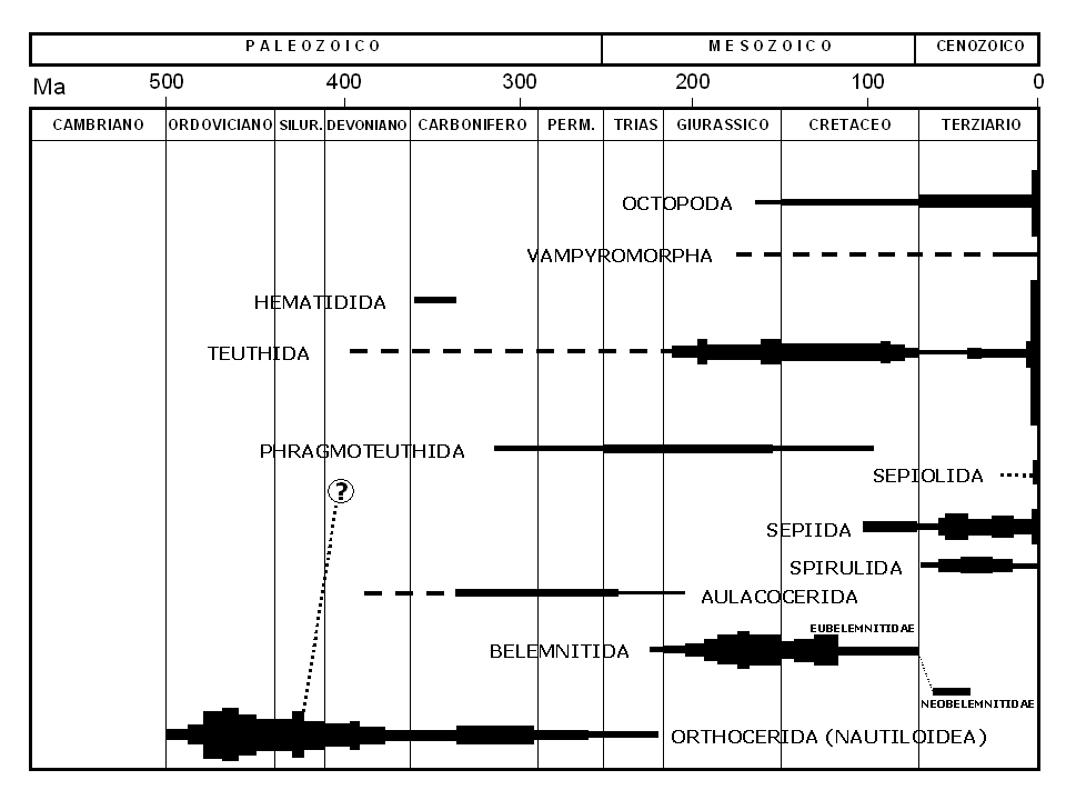 Stratigraphical distribution of the Coleoidea cephalopods. After House (1987), modified.